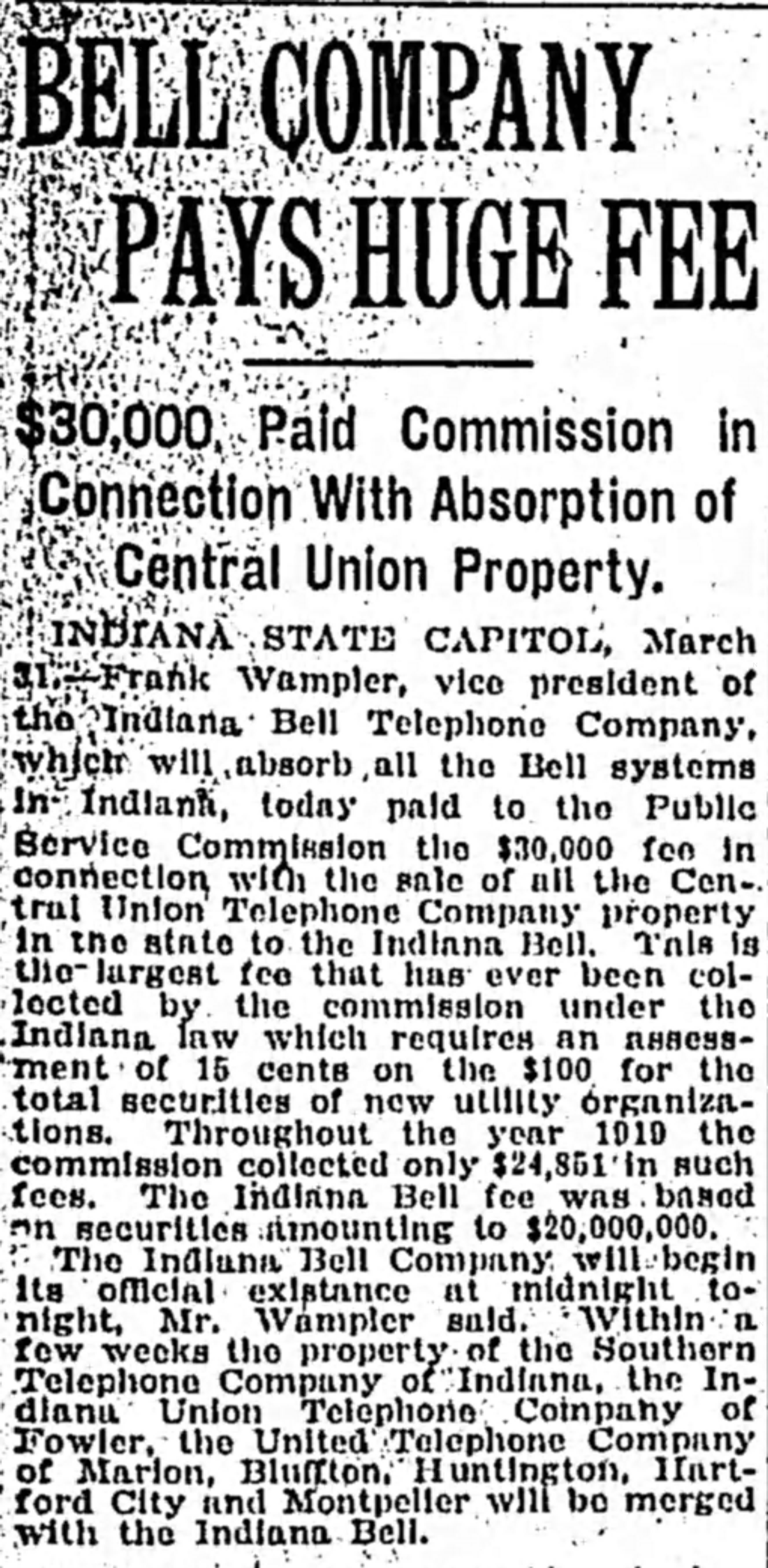 The newly formed Indiana Bell Telephone Company absorbed all Bell systems and the former Central Union Telephone company